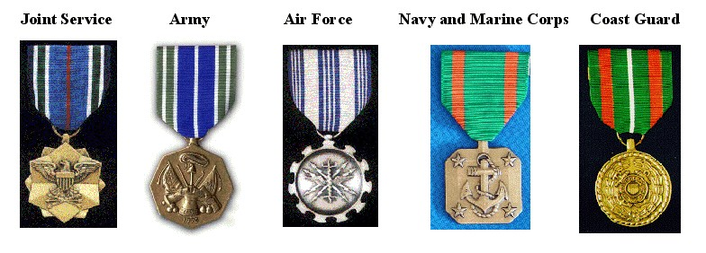 Military Achievement Medals (United States Military).